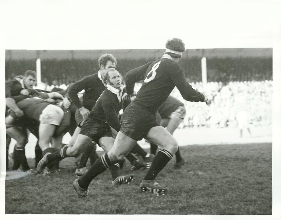 Images from NZ Archives Flickr albums Images uploaded in collaboration between WMUK and the University of Edinburgh